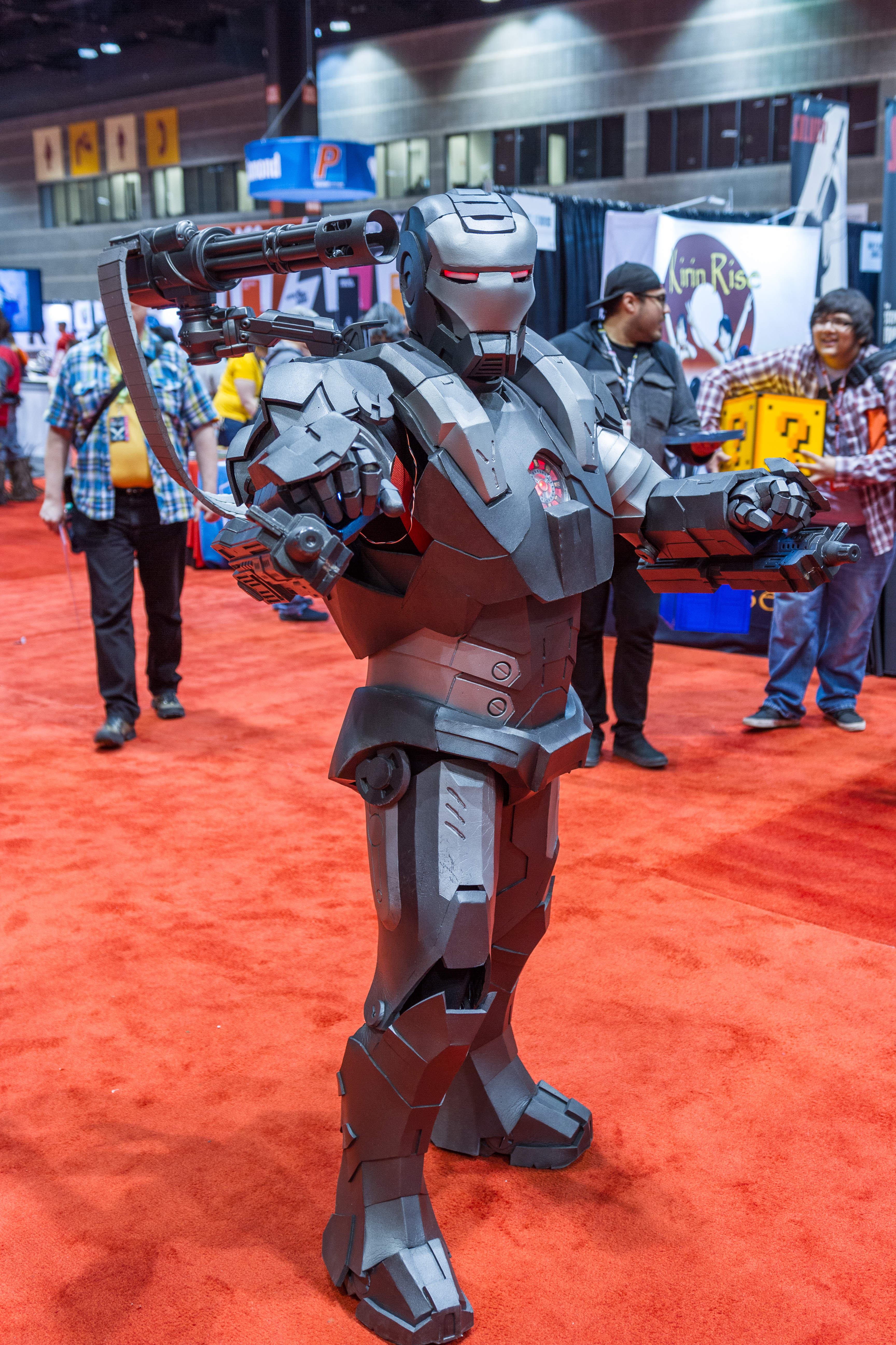 War Machine C2E2 2016 Cosplay at Chicago Comic & Entertainment Expo (C2E2) 2016.